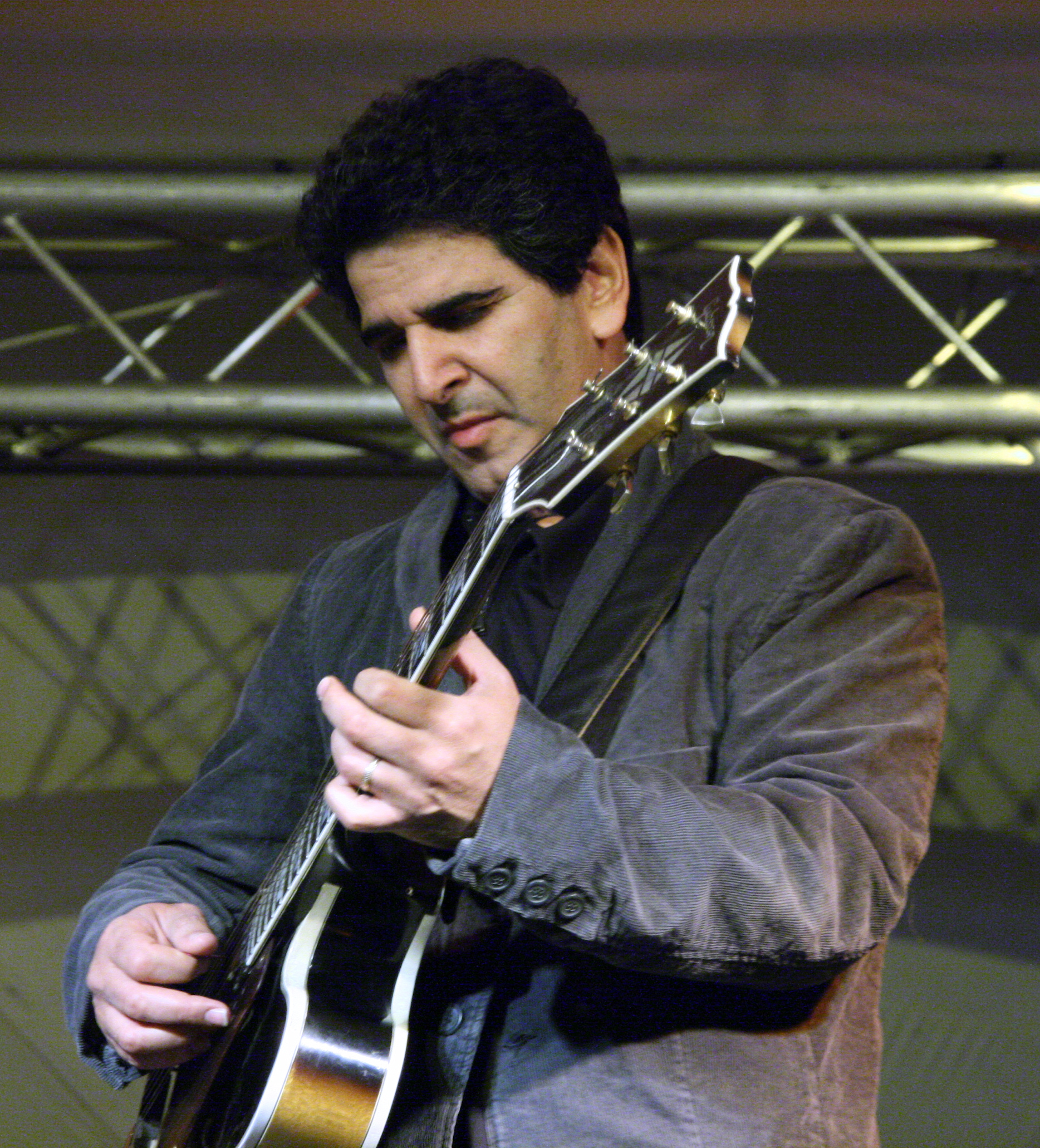 Roni Ben-Hur, jazz guitarist. Performance with Bob Mover Quintet at 2008 Ghent Jazz Festival.